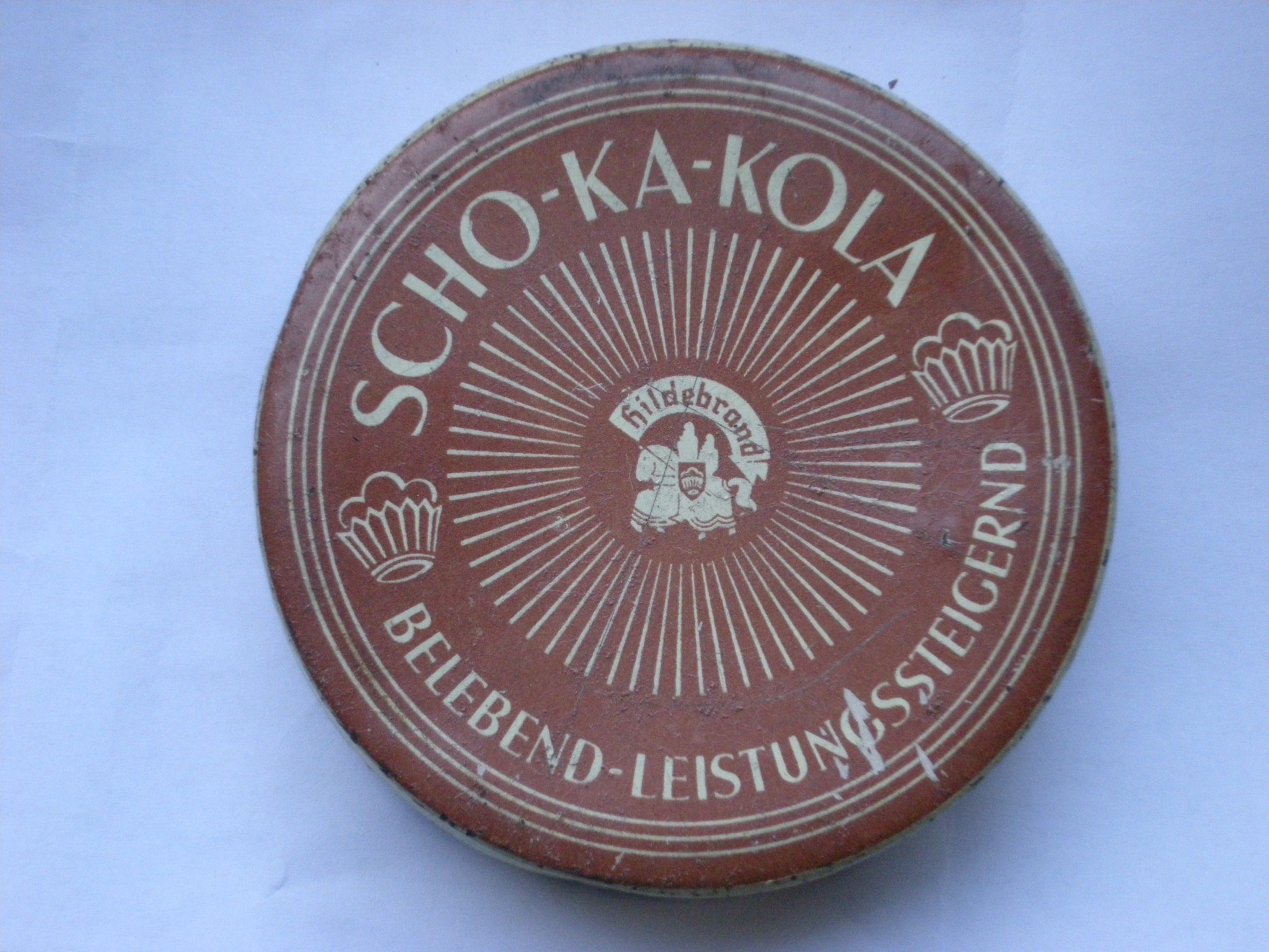 old chocolate tin can from Scho-Ka-Kola from german brand "Hildebrand Kakao und Schokoladenfabrik GmbH" front view